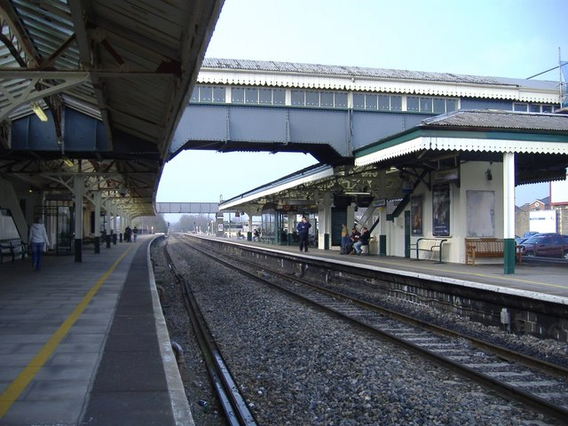 Chippenham railway station